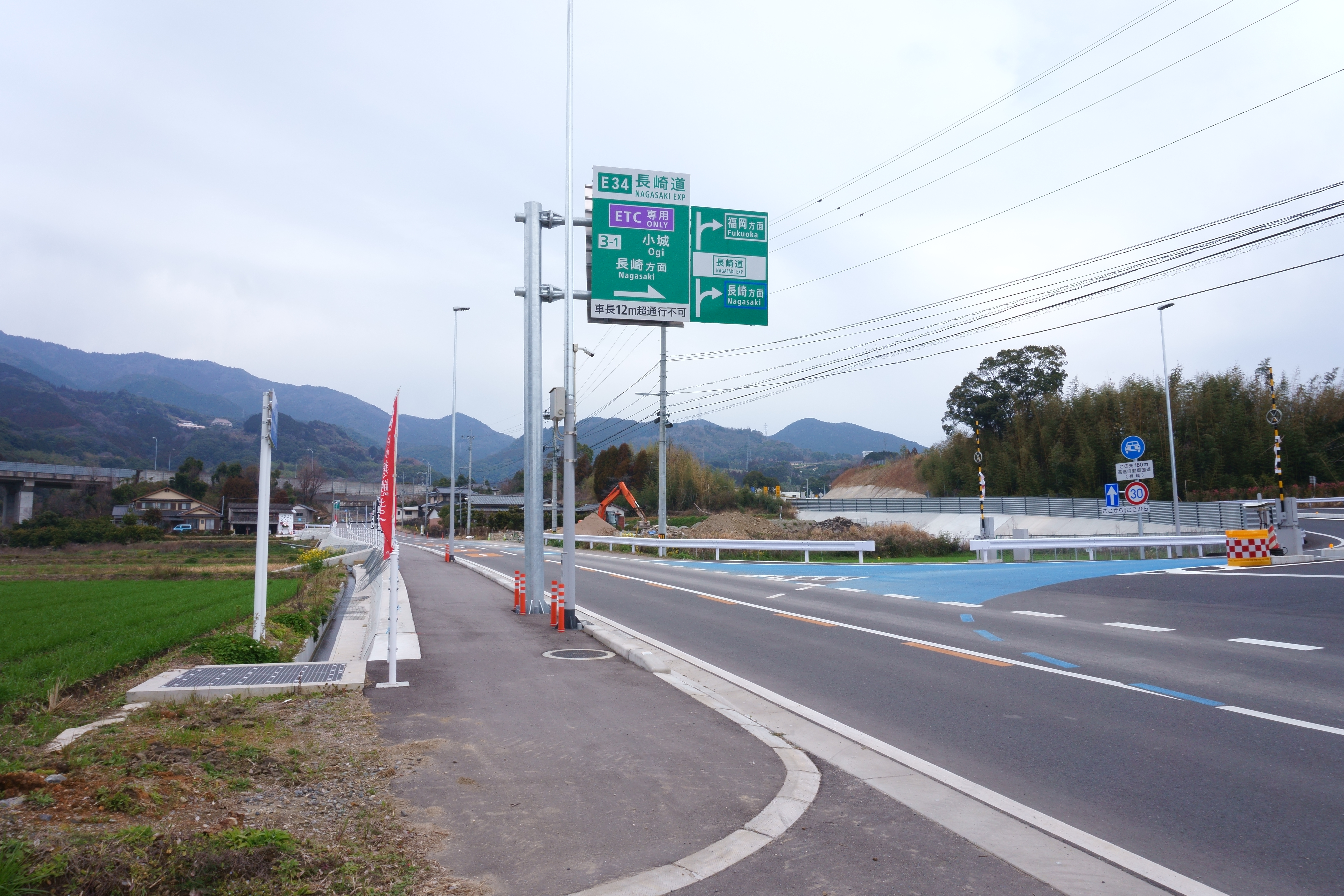 Intersection of prefectural road and an access ramp of Ogi Smart Interchange in down lines of Nagasaki Expressway.